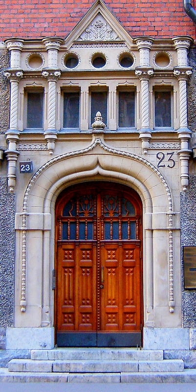 Albertinkatu 23, Helsinki, Finland